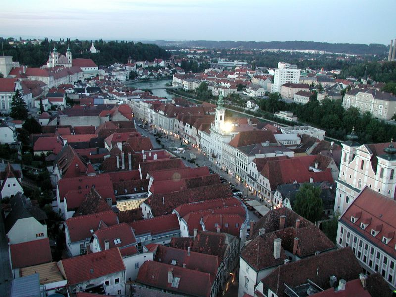 The old town of Steyr